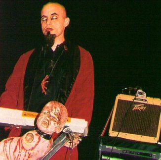 Madonna Wayne Gacy live in 1995 (24-11-95).